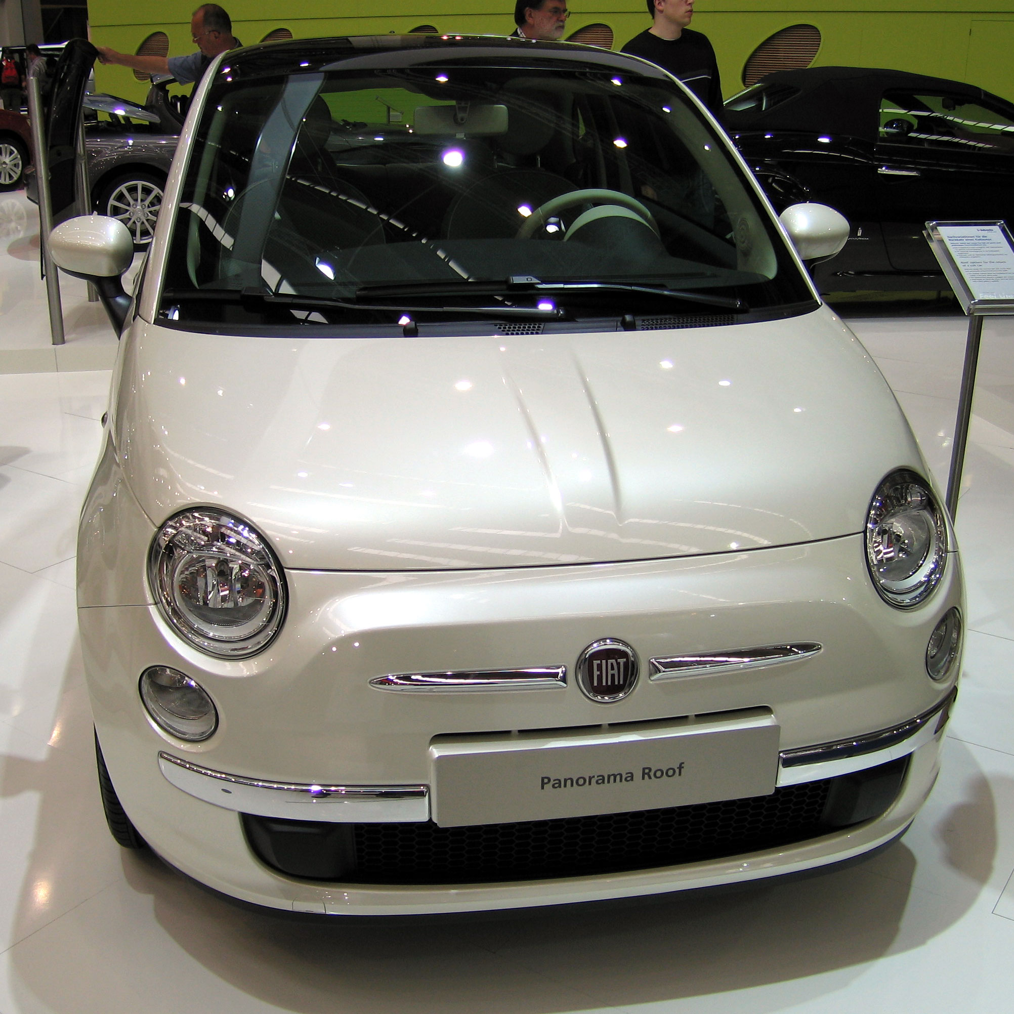 Fiat 500 with panorama roof by webasto at the IAA 2007